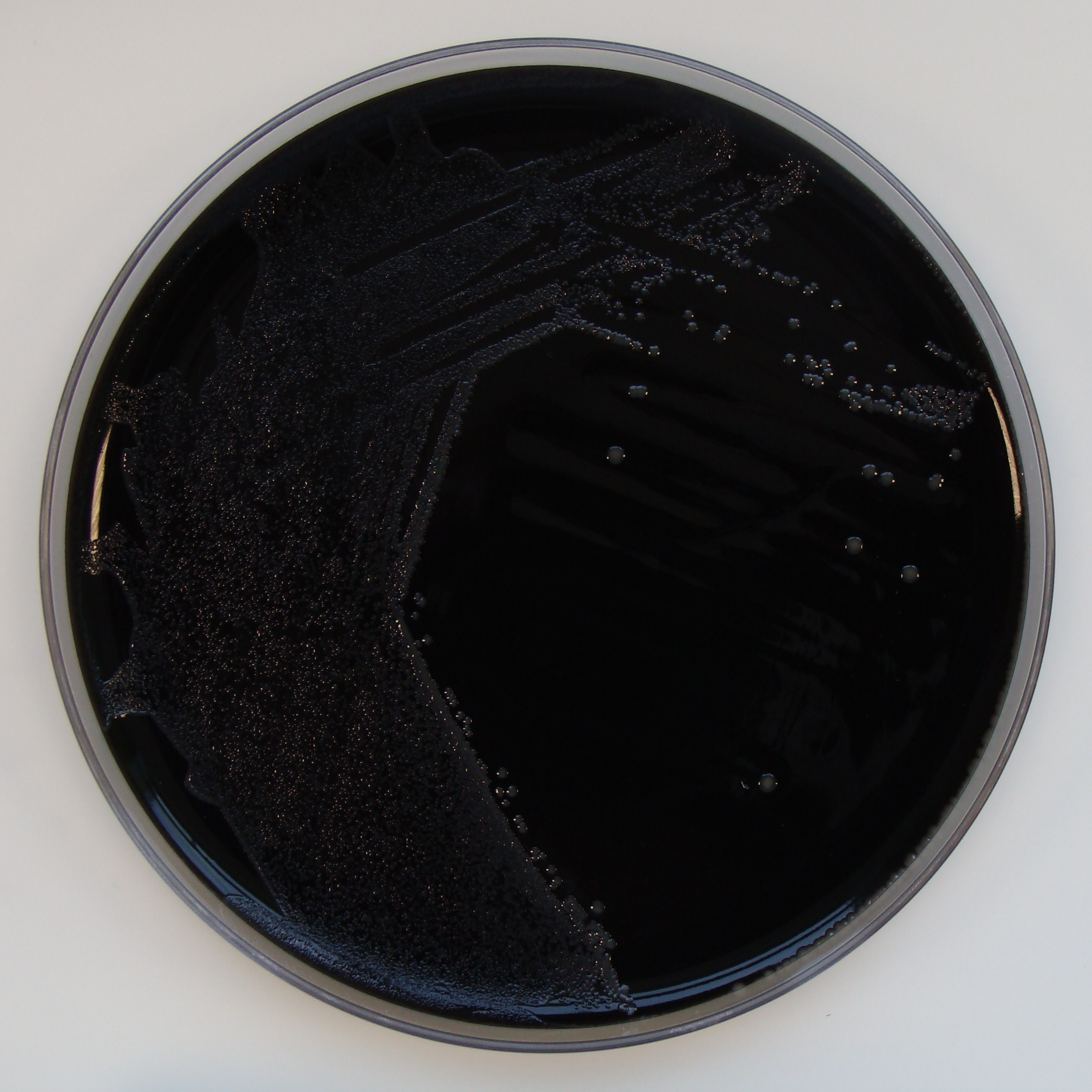 Bordetella pertussis growing on Charcoal Agar supplemented with Cephalexin. Isolate shown at 7 days growth in 10% carbon dioxide. Isolate from a pernasal swab from a patient with whooping cough